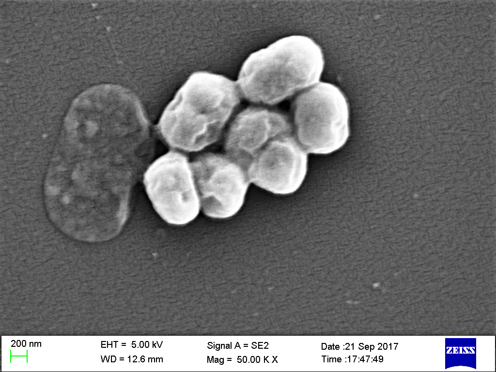 A.baumannii visualized using Scanning electron microscopy.png